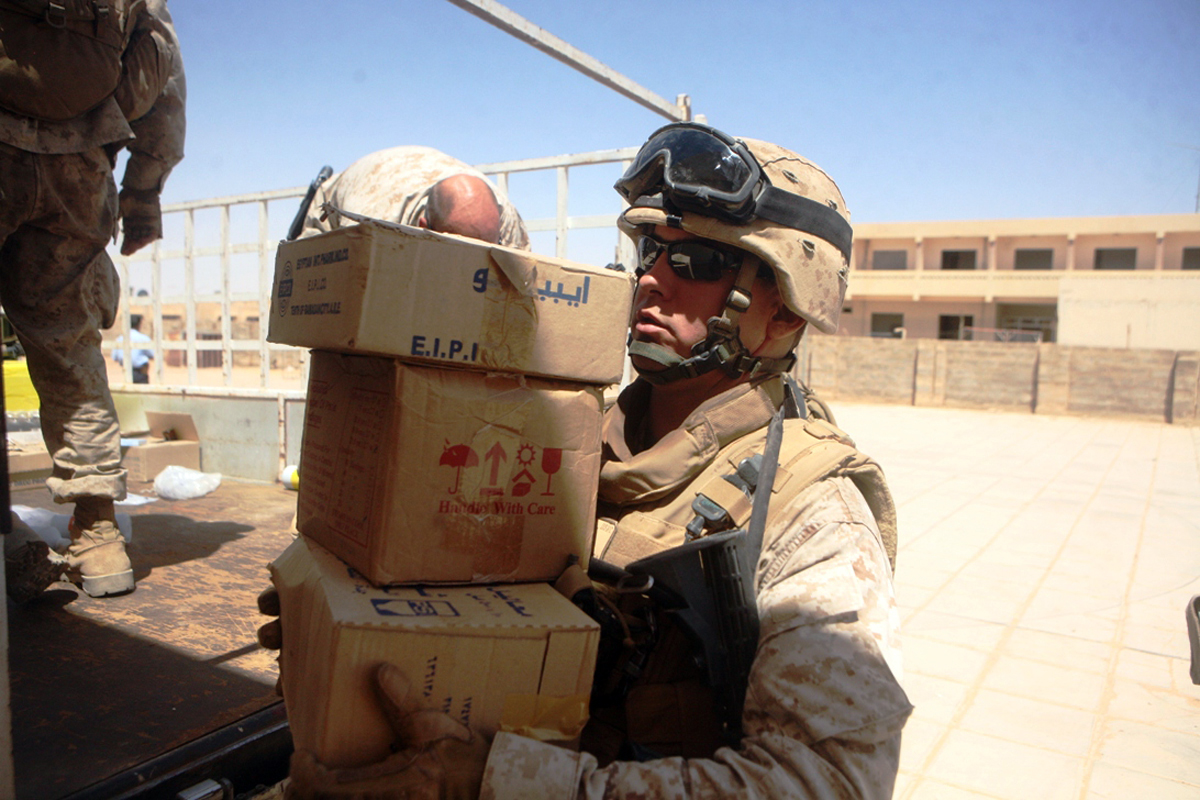 AKASHAT, Iraq (July 23, 2008) Hospital Corpsman 2nd Class Doug A. Augustson, a corpsman with Delta Co., 4th Light Armored Reconnaissance Battalion, delivers medical supplies to be issued to more than 200 Iraqis during a cooperative medical engagement in Akashat. Medical care will be provided to more Iraqi towns with in the future. (U.S. Marine Corps photo by Cpl. Ryan Tomlinson/Released)